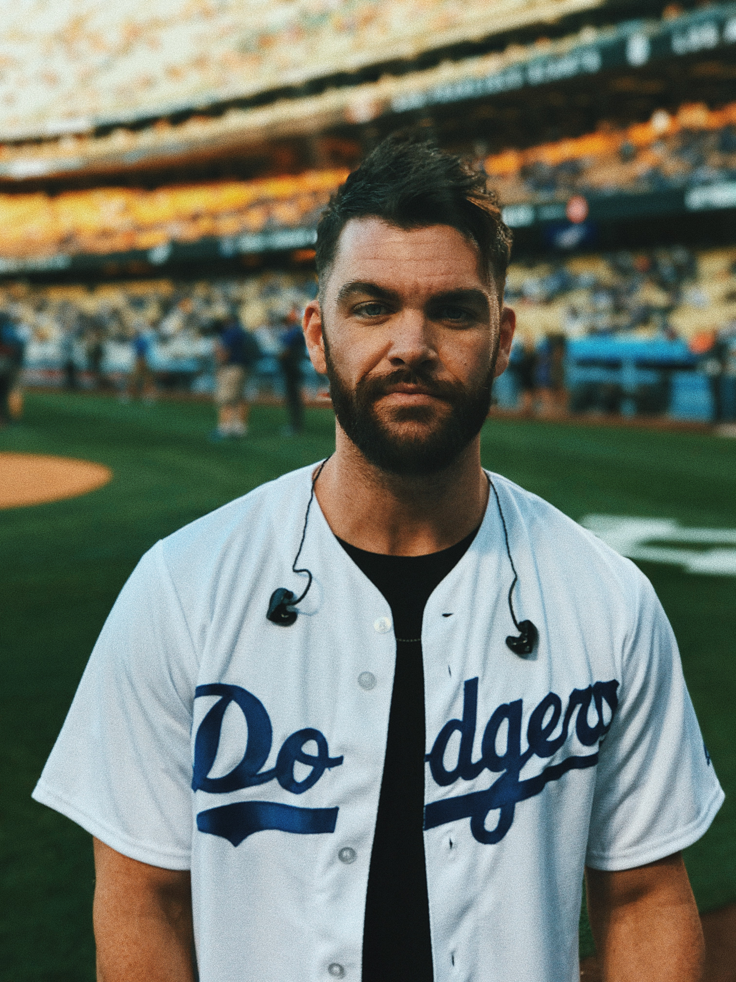 Dylan Scott right before he sang the national anthem at a Dodgers game.